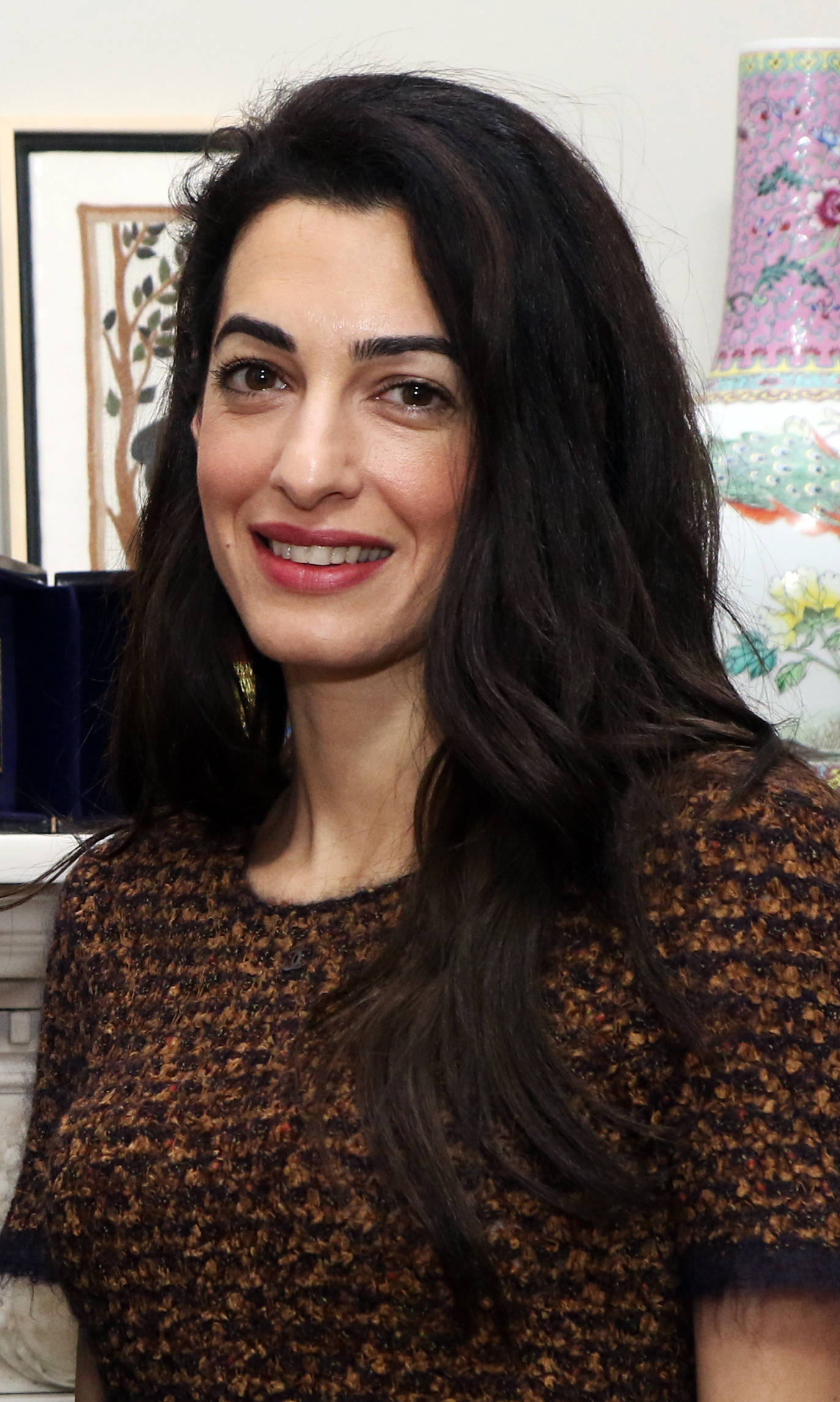 Foreign Office Minister Mark Field meeting Amal Clooney in London, 2 May 2018.